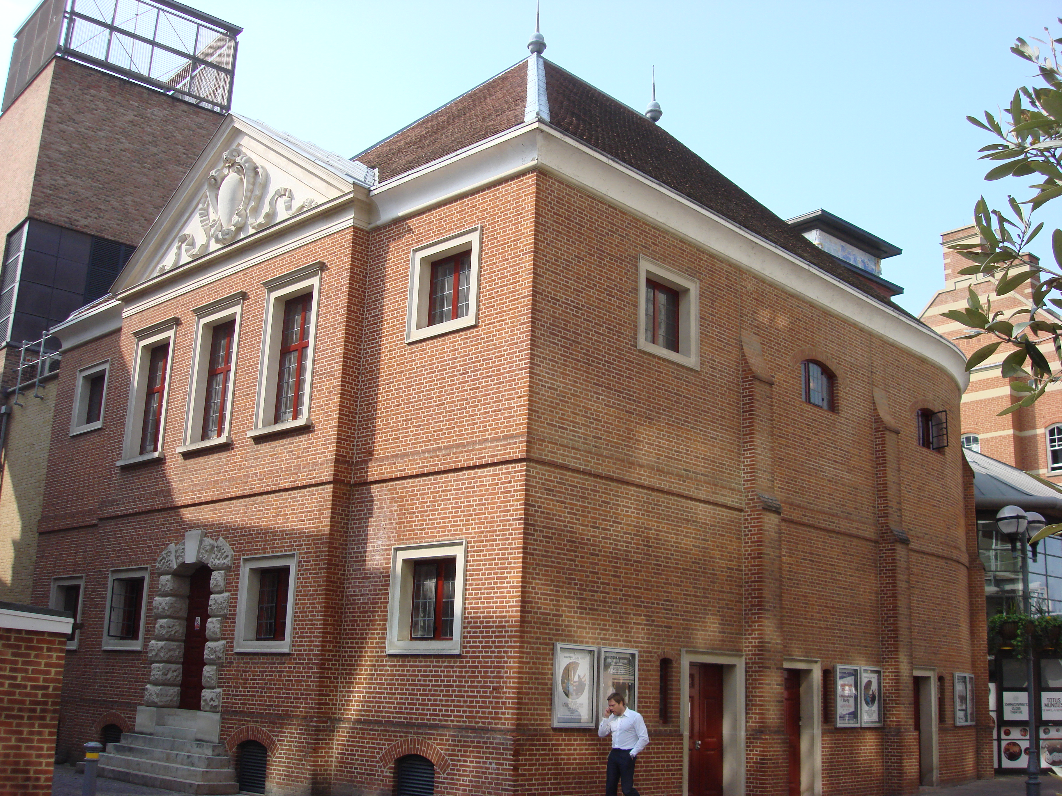 Globe Education Centre Theatre. This theatre, which is part of the Shakespeare's Globe Theatre complex, is based on designs by Inigo Jones. It stands on Park Street.